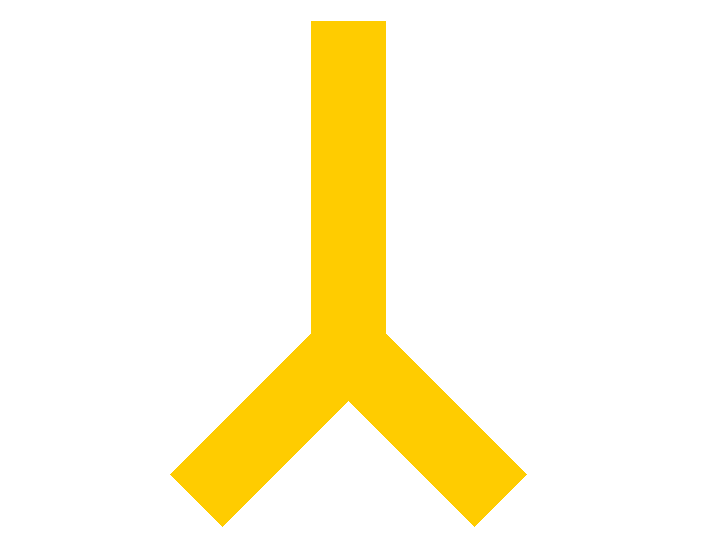 Mark of Ww2 GermanDivision Panzer 1 - post 1940